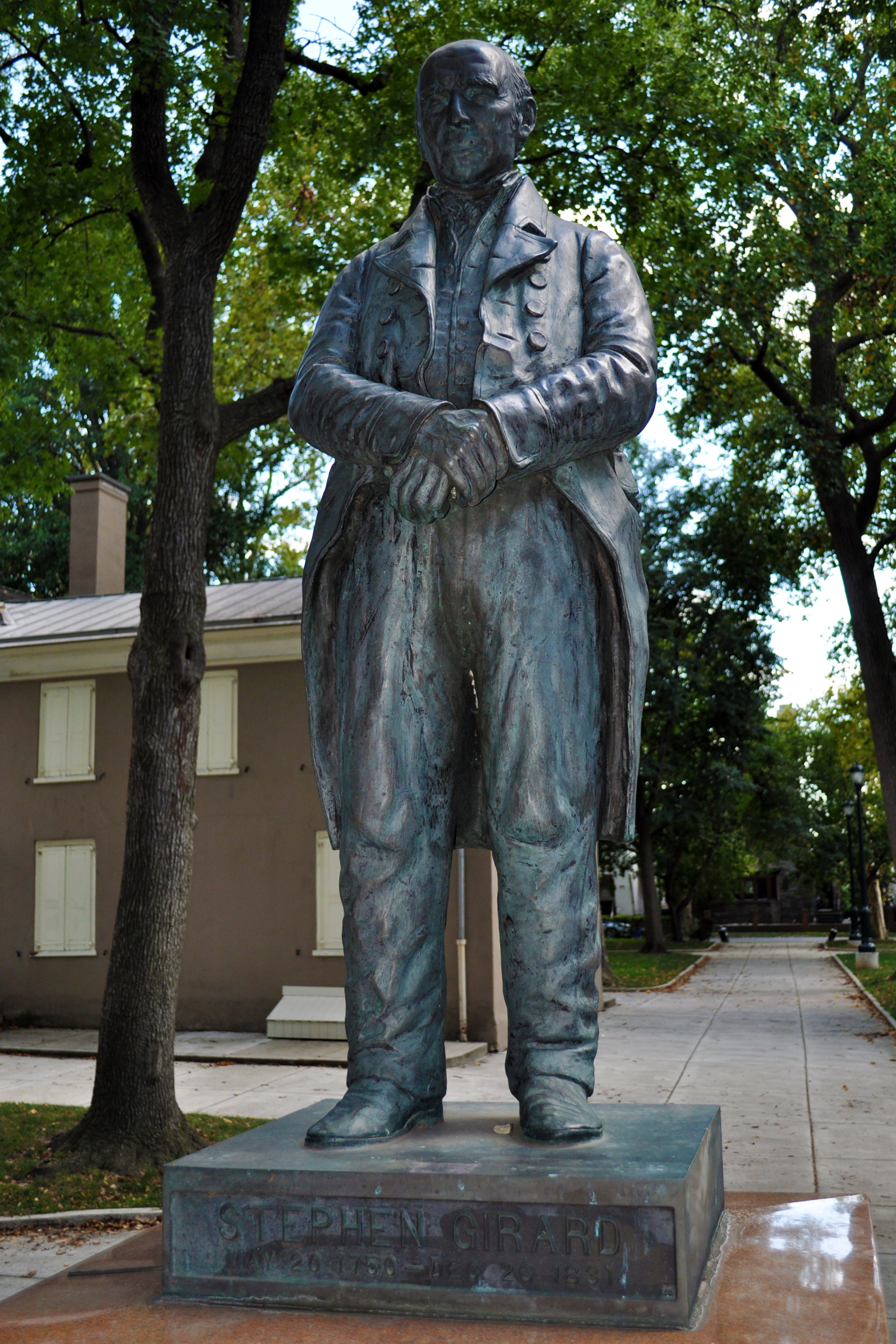 Statue of Stephen Girard, Designed by Alfred Seebode, Girardarian, Class of 1942, Dedicated June 2, 1990 in Stephen Girard Park 2101 Shunk St Philadelphia PA 19145